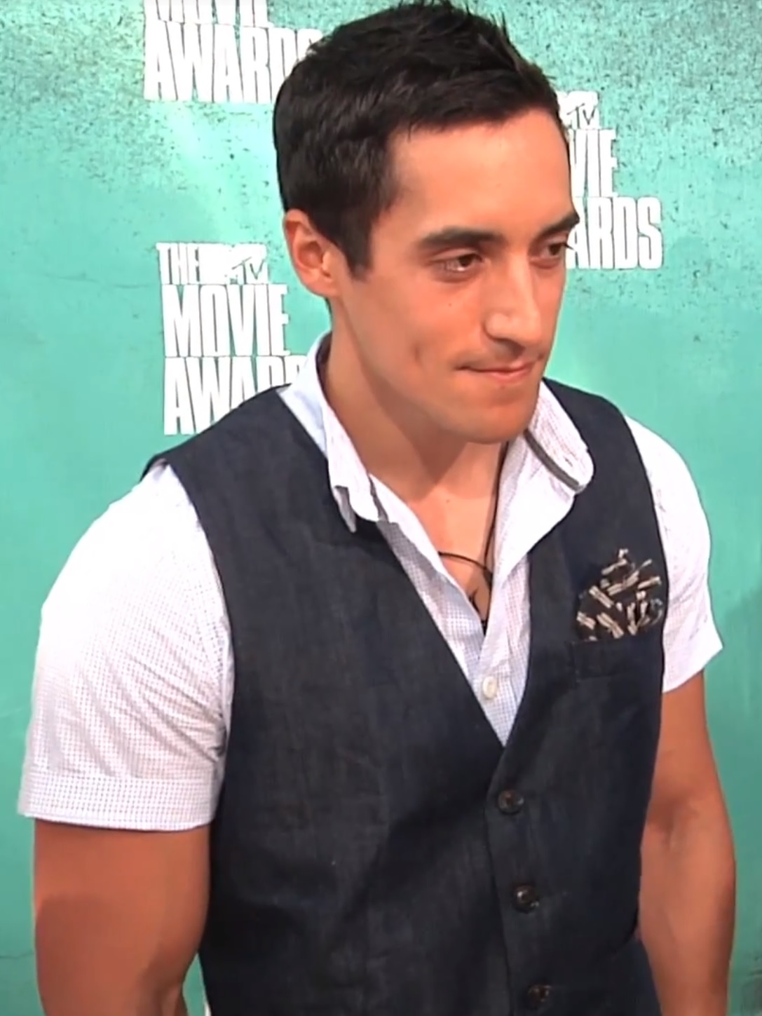 American actor Keahu Kahuanui interviewed at the MTV Movie Awards 2012 on "The Hollywood Social Lounge". Kelly V. Dolan & Mabel Aragon HOST the 2012 MTV Movie Awards Red Carpet for NBC News Radio KCAA 1050 AM "LIVE with Aaron & Kelly"